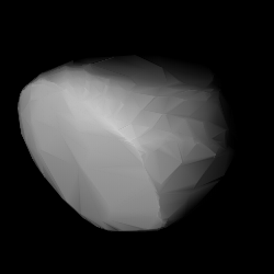 3D convex shape model of 1036 Ganymed, computed using light curve inversion techniques. J. Hanuš, J. Ďurech, M. Brož, B. D. Warner (June 2011). "A study of asteroid pole-latitude distribution based on an extended set of shape models derived by the lightcurve inversion method". Astronomy and Astrophysics 530: A134. ISSN 0004-6361. arXiv